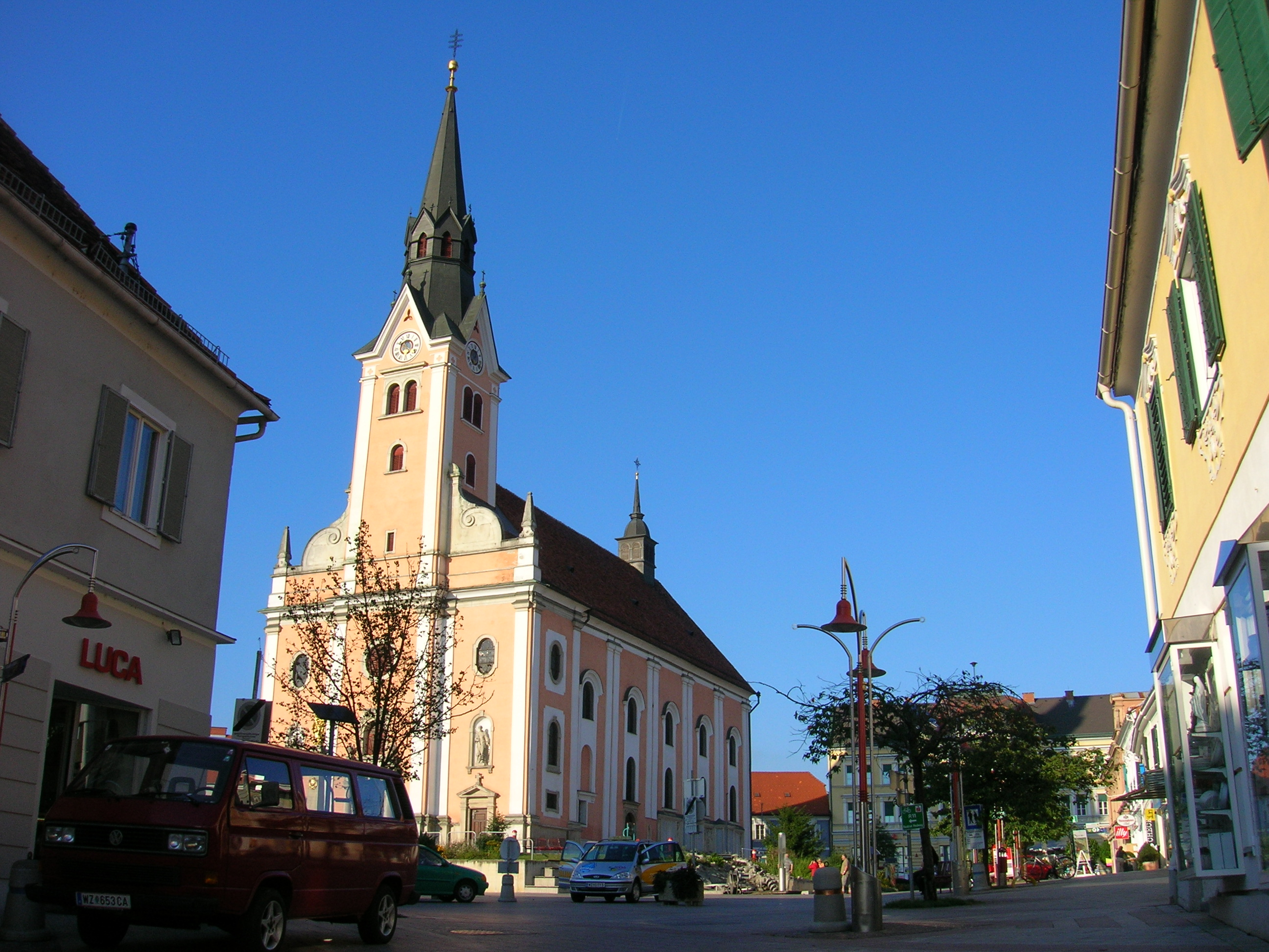 the main square of Gleisdorf in Styria/Austria